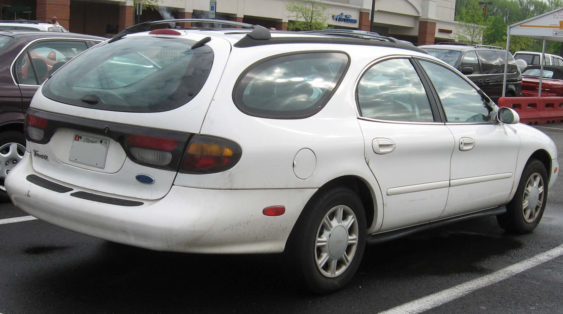 1996-1999 Ford Taurus photographed in USA.